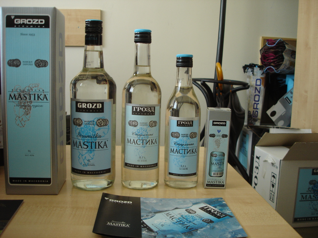 Mastika spirit drink from Strumica, Macedonia